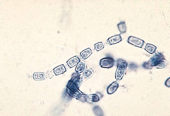 ID#: 476 Description: Arthroconidia of Coccidioides immitis Arthroconidia of Coccidioides immitis. Content Providers(s): CDC/Dr. Hardin Creation Date: 1965 Copyright Restrictions: None - This image is in the public domain and thus free of any copyright restrictions. As a matter of courtesy we request that the content provider be credited and notified in any public or private usage of this image.